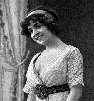 French actress and singer Edmée Favart in 1912